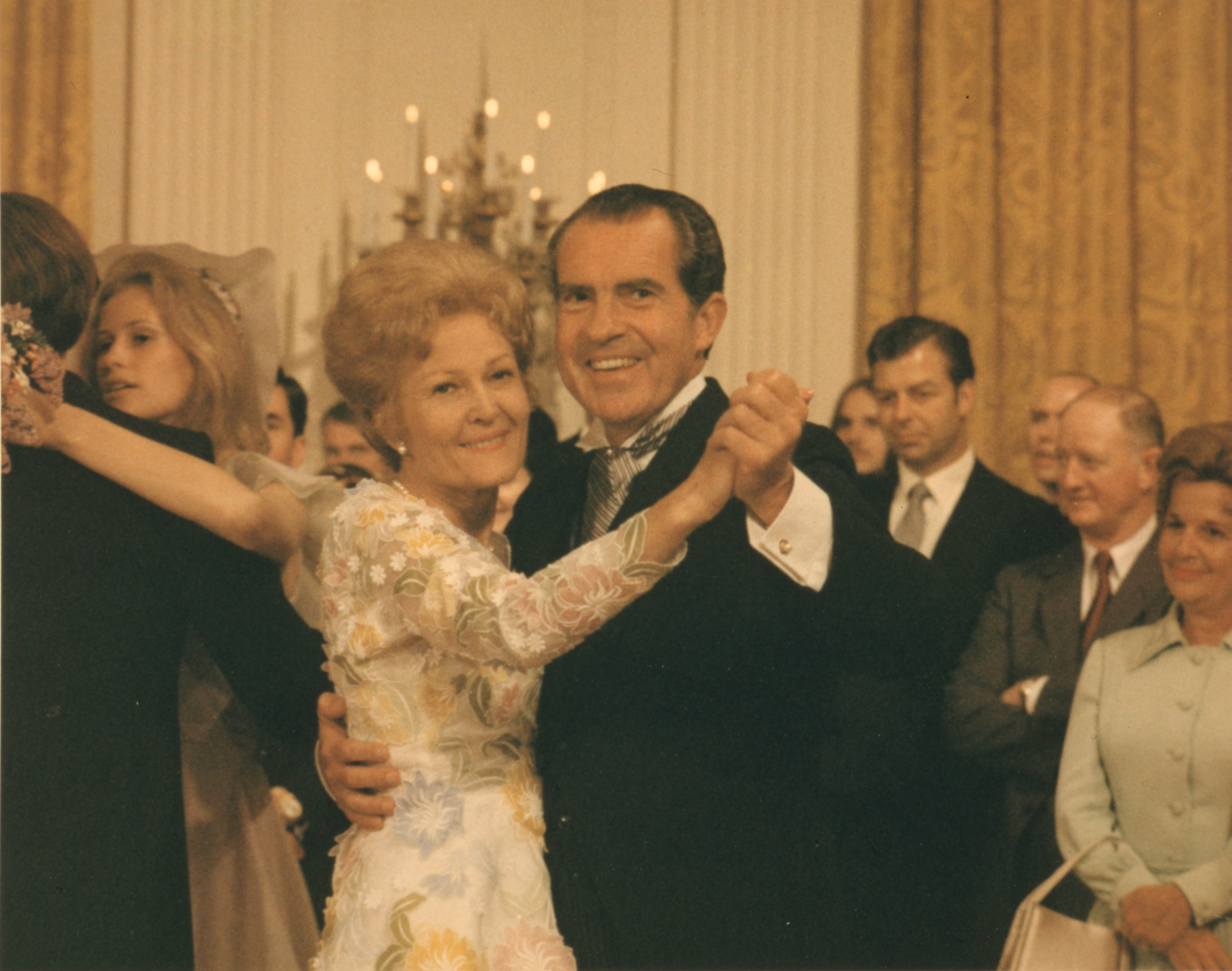 President Richard Nixon and his wife Pat Nixon dancing at their daughter's wedding.